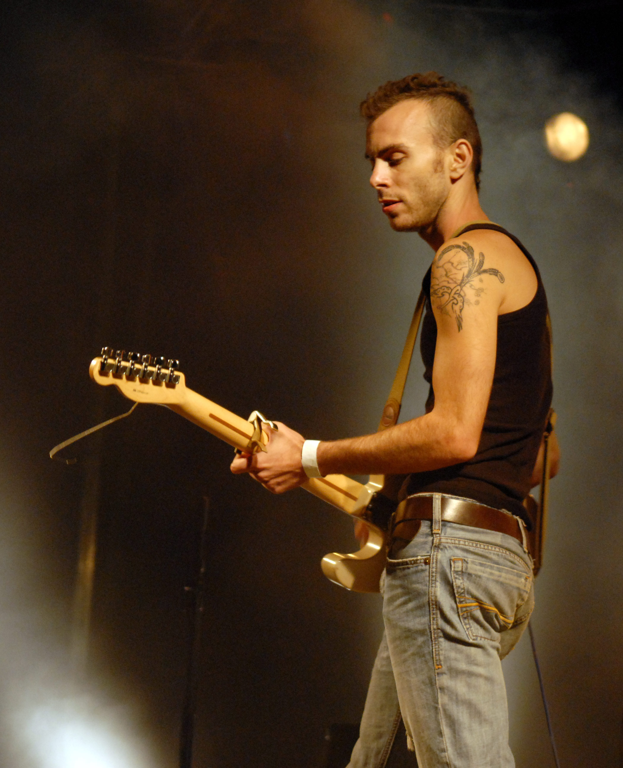 Asaf Avidan